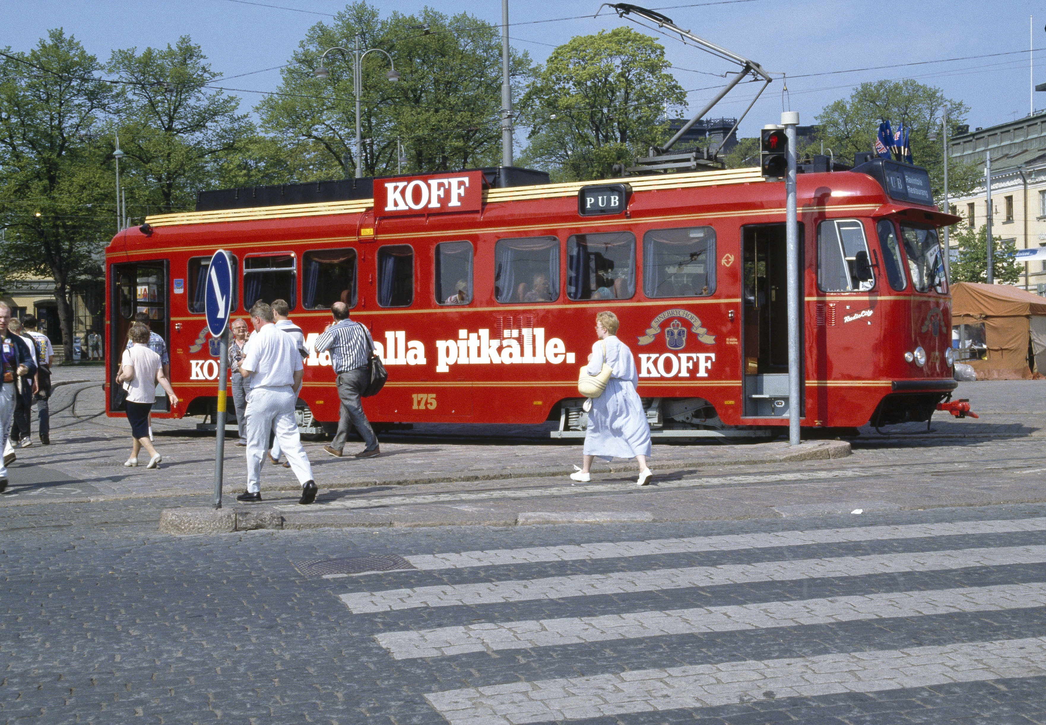 19950502 . Spårakoff HKL:n olutraitiovaunu Kauppatorilla